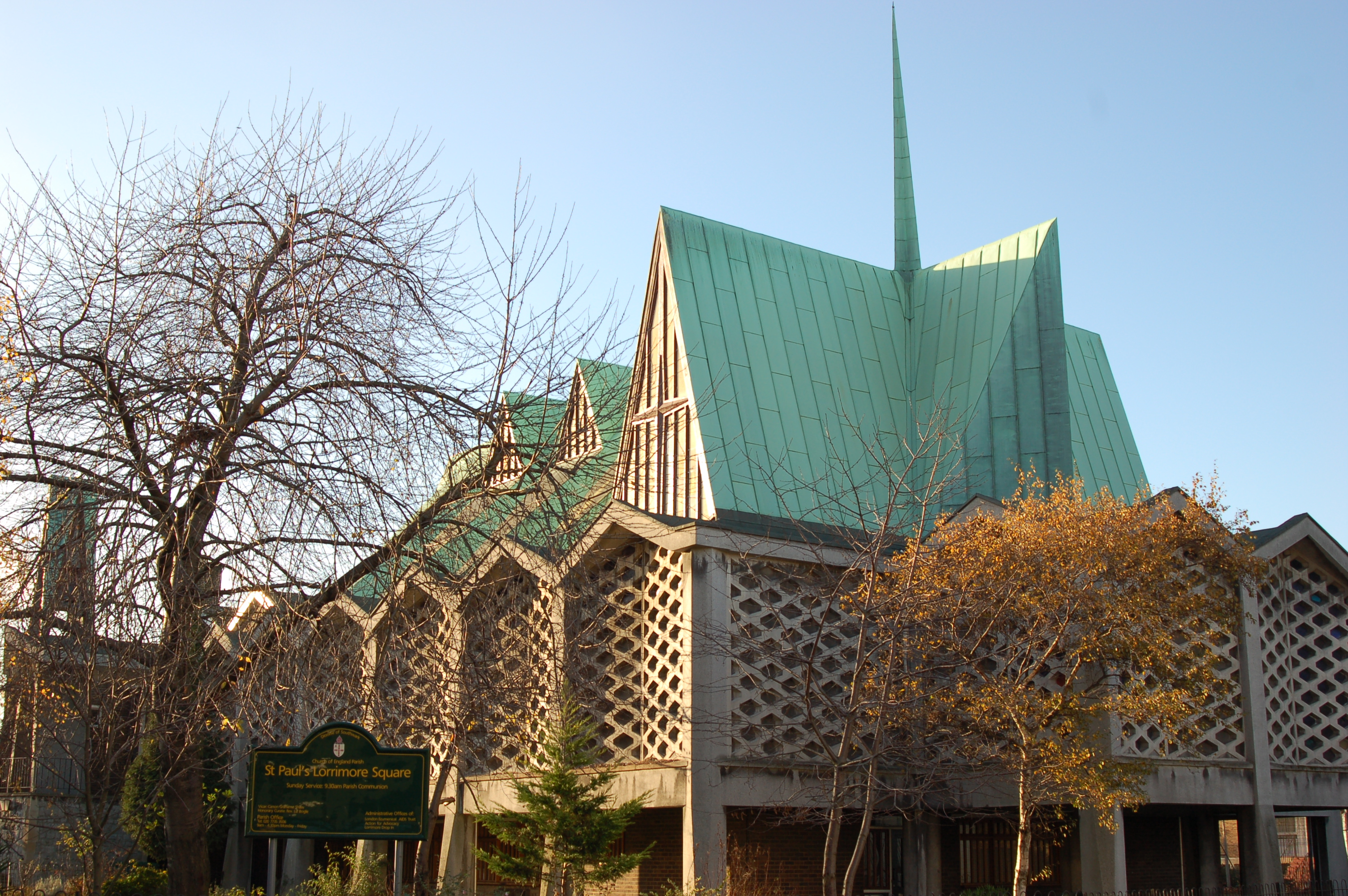 St Paul's parish church, Lorrimore Square, London SE17, seen from the east from Chapter Road